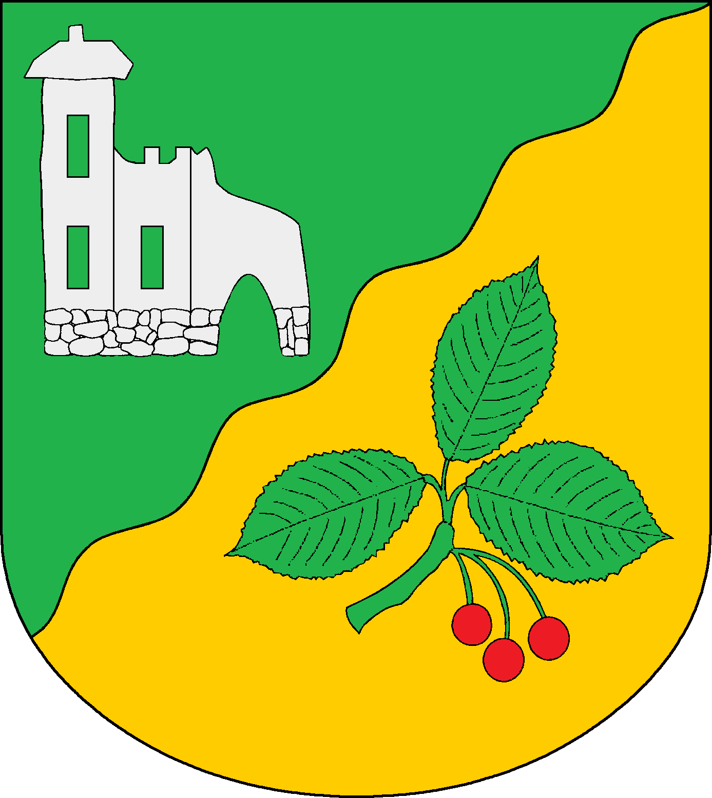 Coat of arms of the municipality Kasseburg in Schleswig-Holstein, Germany.